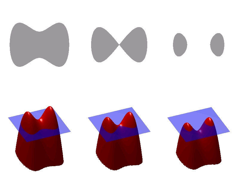 Illustration of Level set method.